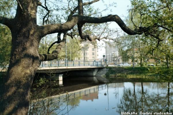 The bridge "Hagabron", Örebro, Sweden